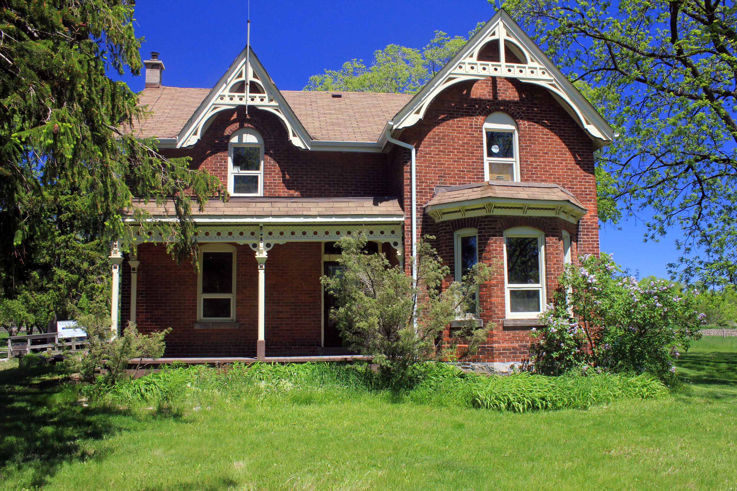 Bronte Creek Provincial Park is a fairly large park near Oakville, Ontario. Named for the 12-mile creek that flows through the park into Lake Ontario, the Park The Farmhouse at Bronte Creek